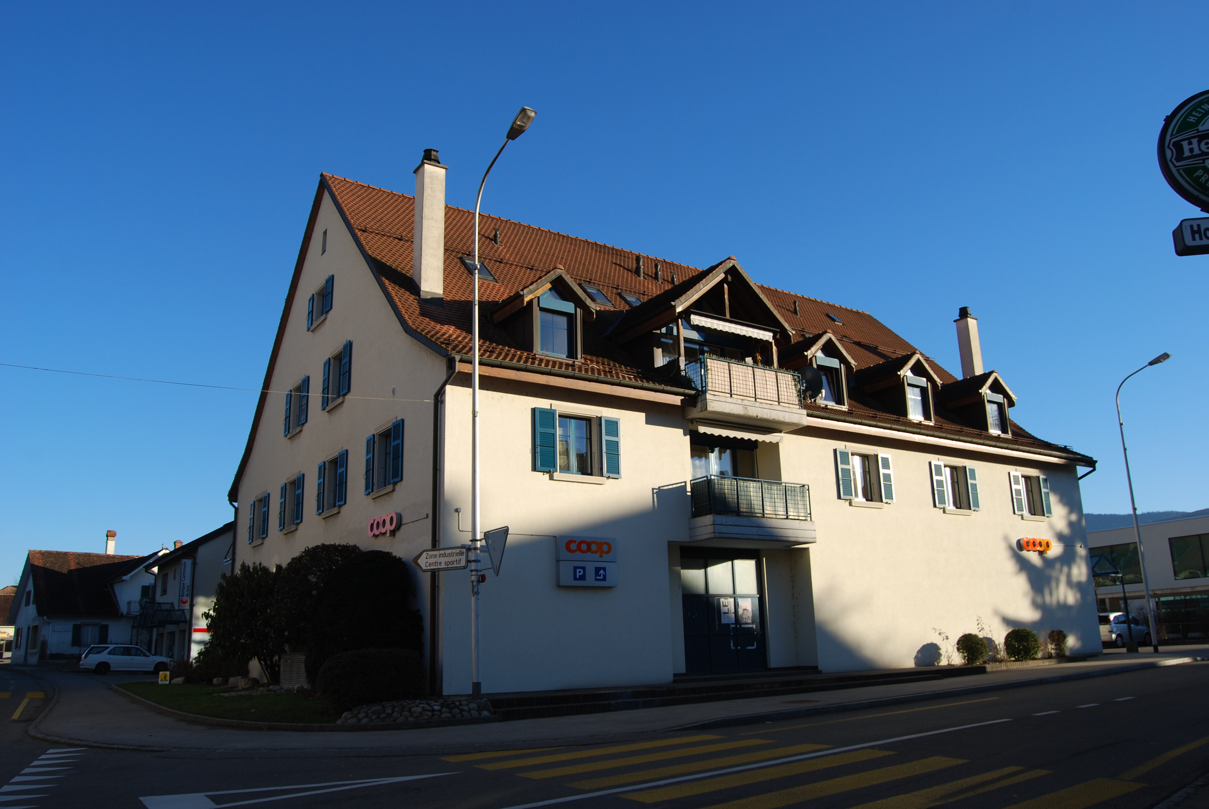 Supermarket of Coop at Courroux, canton of Jura, Switzerland